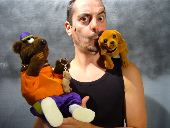 Dániel Mogács.